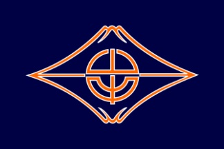 Flag of Yamanakako Yamanashi